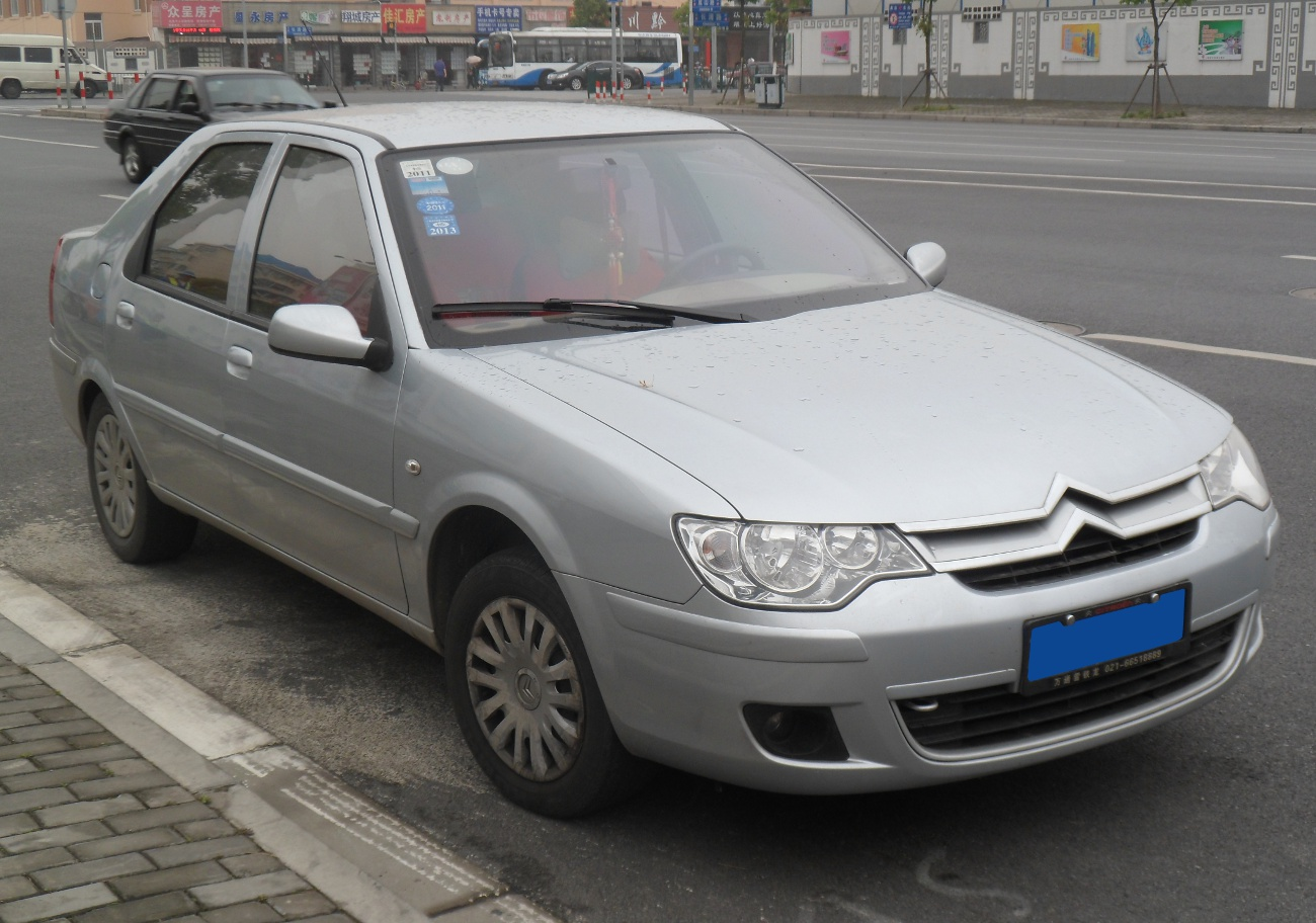 Citroën C-Elysée sedan photographed in Shanghai, China.